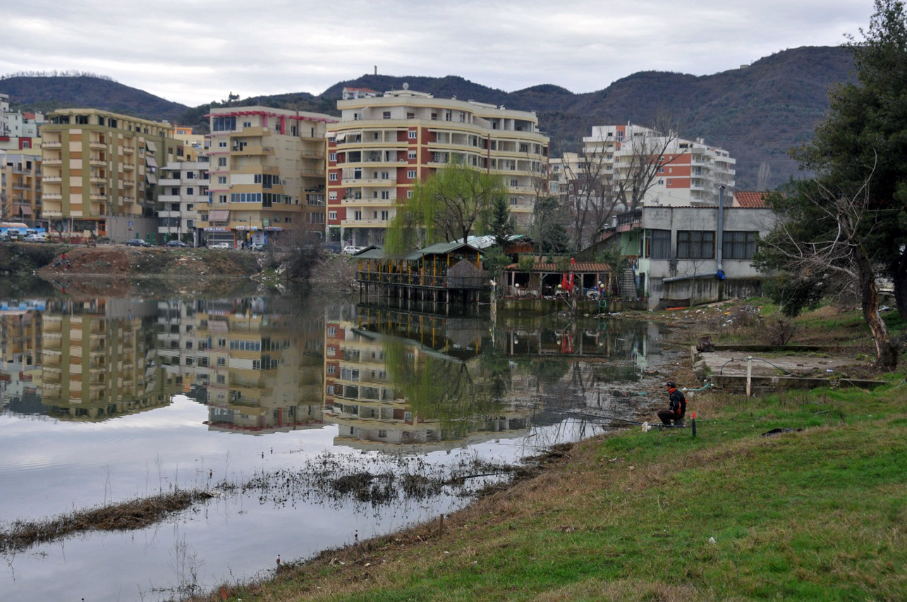 Tirana Lake